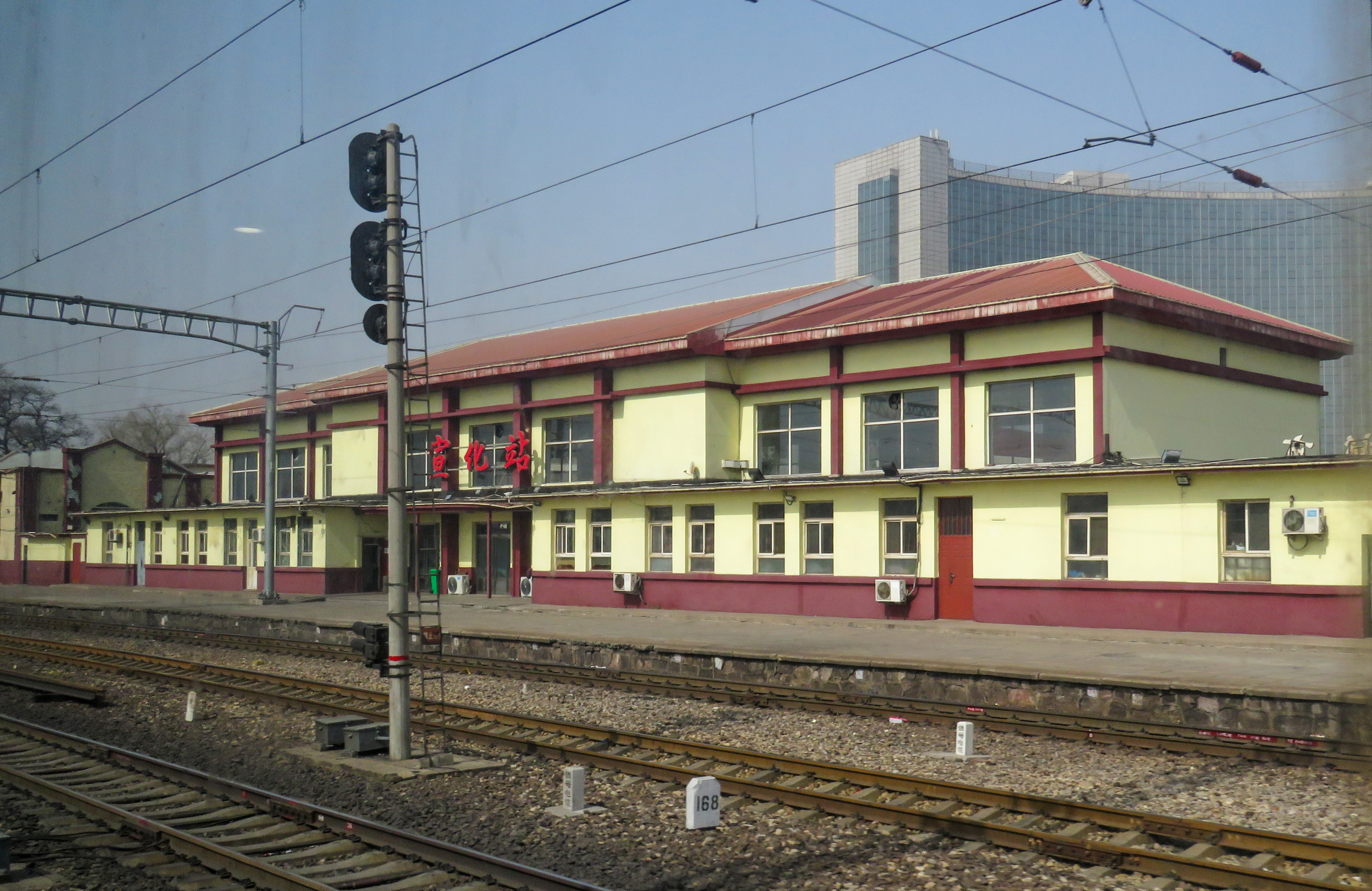 Next to this building is the old station.